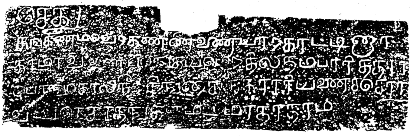 Kotagama Tamil inscription